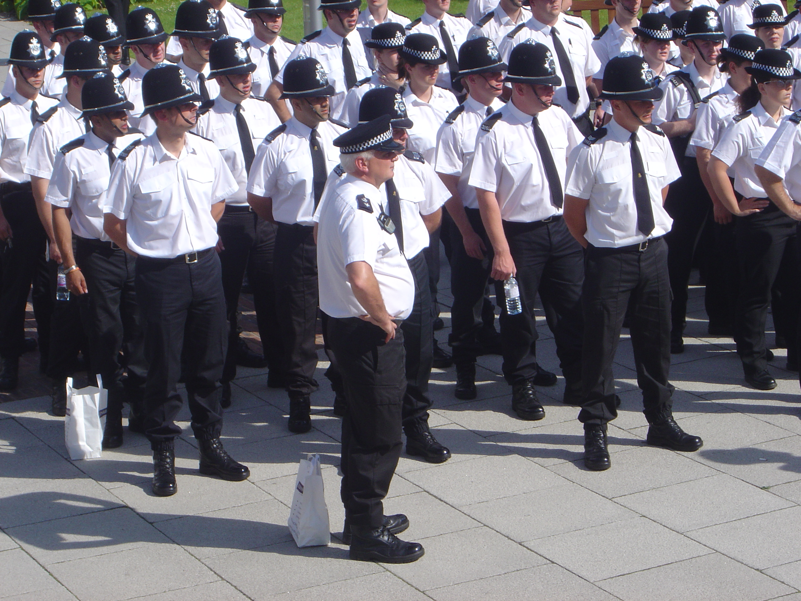 a group of police officers ready to depart from Edinburgh after the 38th G8 summit